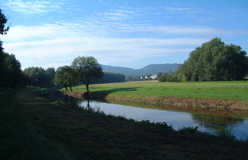 River Neiße near Hartau near the border of the Czech Republic and Germany